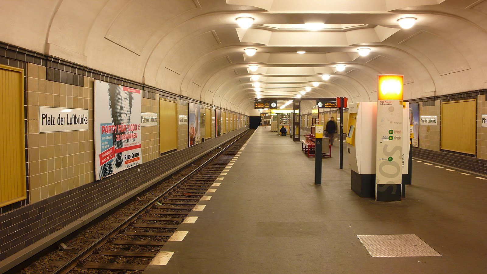 Platz der Luftbruecke sub